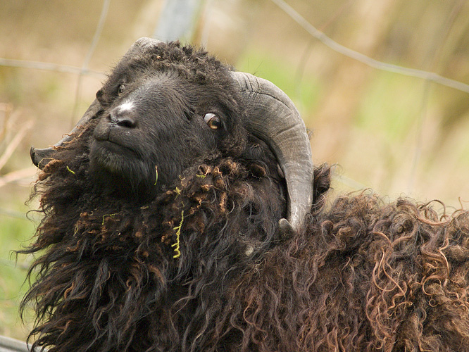 Ouessant ram